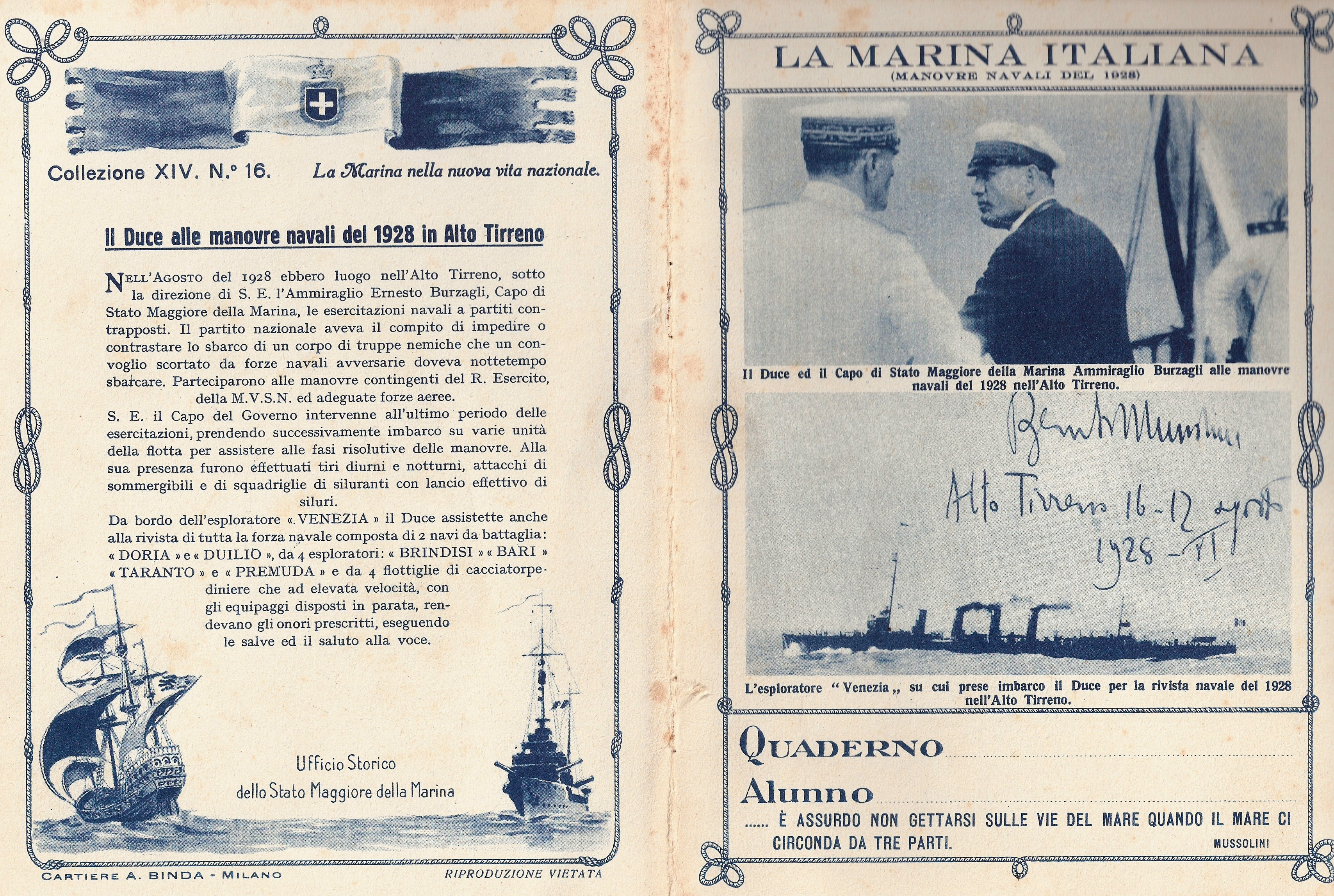 Fascist propaganda copybook with Benito Mussolini and Admiral Ernesto Burzagli (1928). The original picture, scanned by Emiliano Burzagli, belongs to the Private archive of Burzaghi family, Italy.